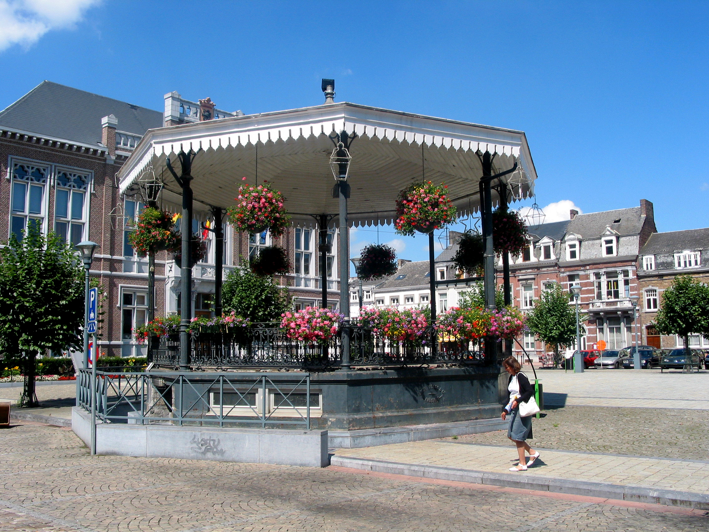 Andenne (Belgium), place des Tilleuls - the banstand (1879).